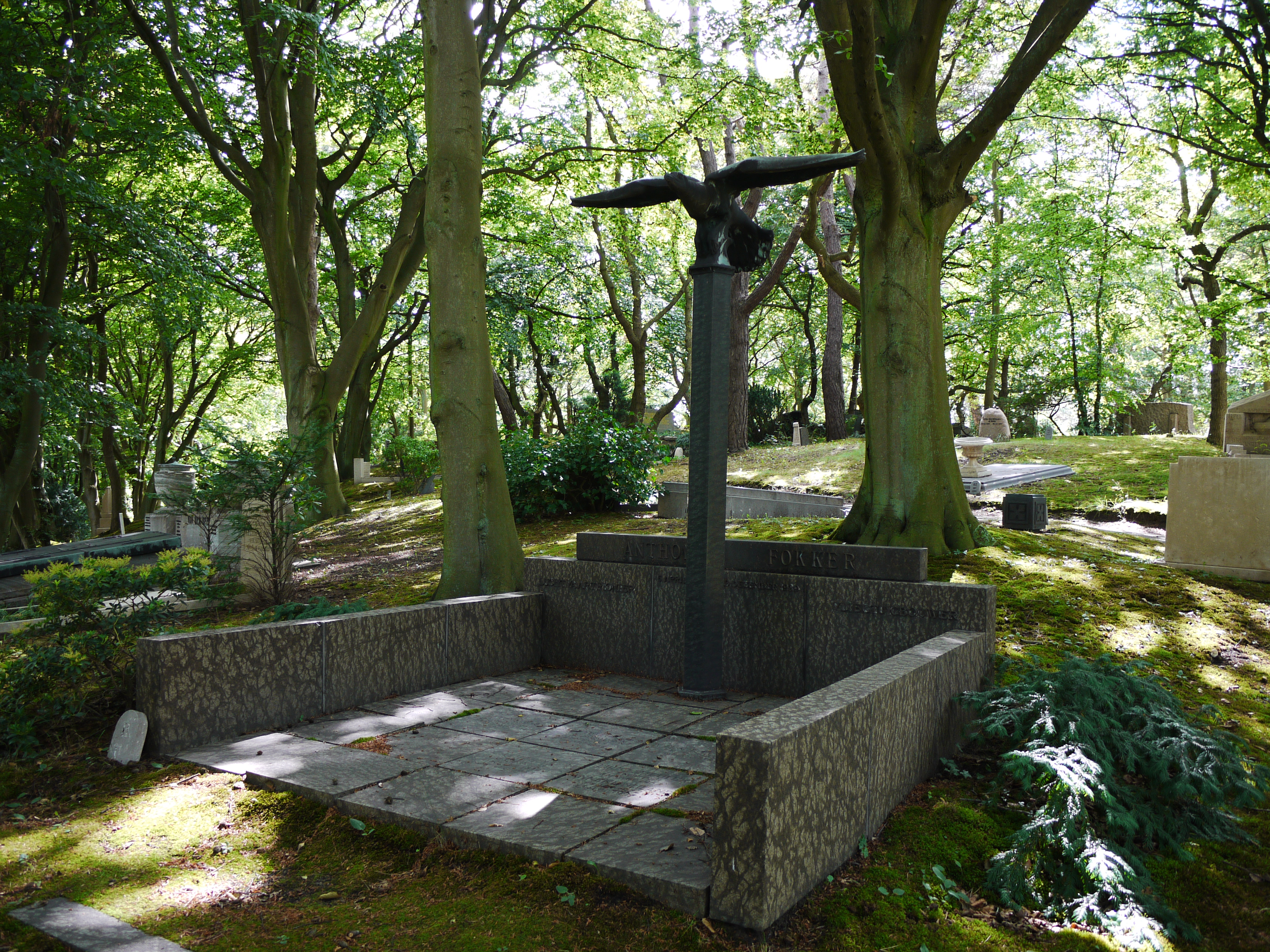 Grave of Anthony Fokker, at Westerveld graveyard.